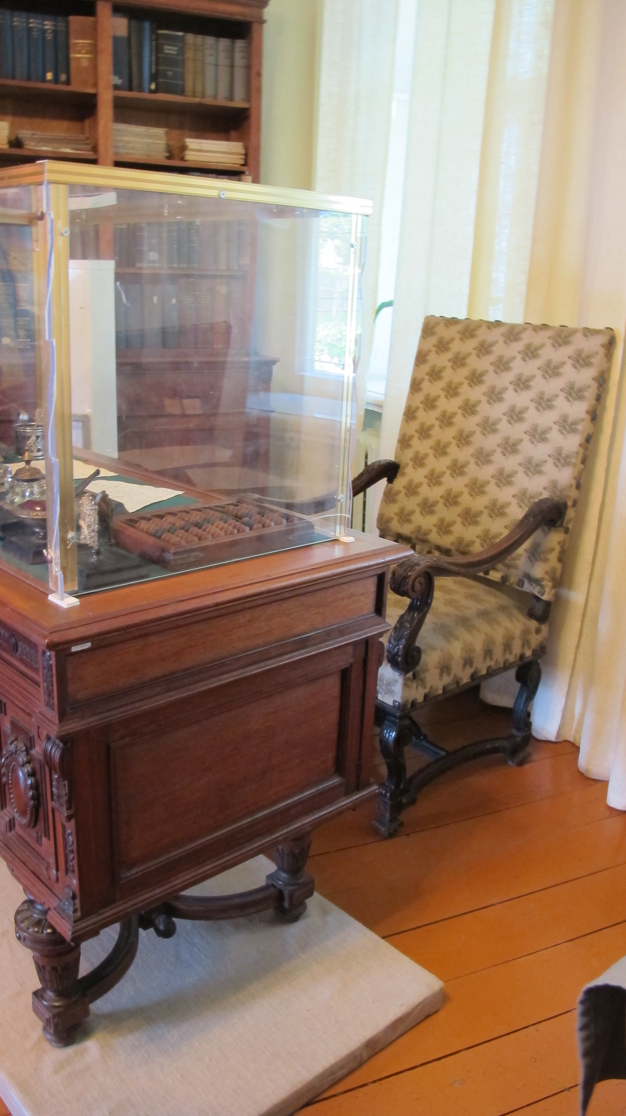 Boblovo museum 2016-07-30